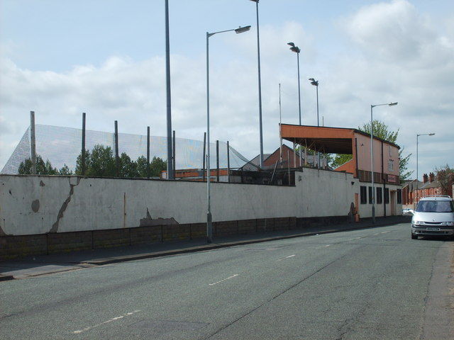 Exterior shot of Queen Street, home of Bilston Town F.C. and Bustleholme F.C., taken by Gordon Griffiths